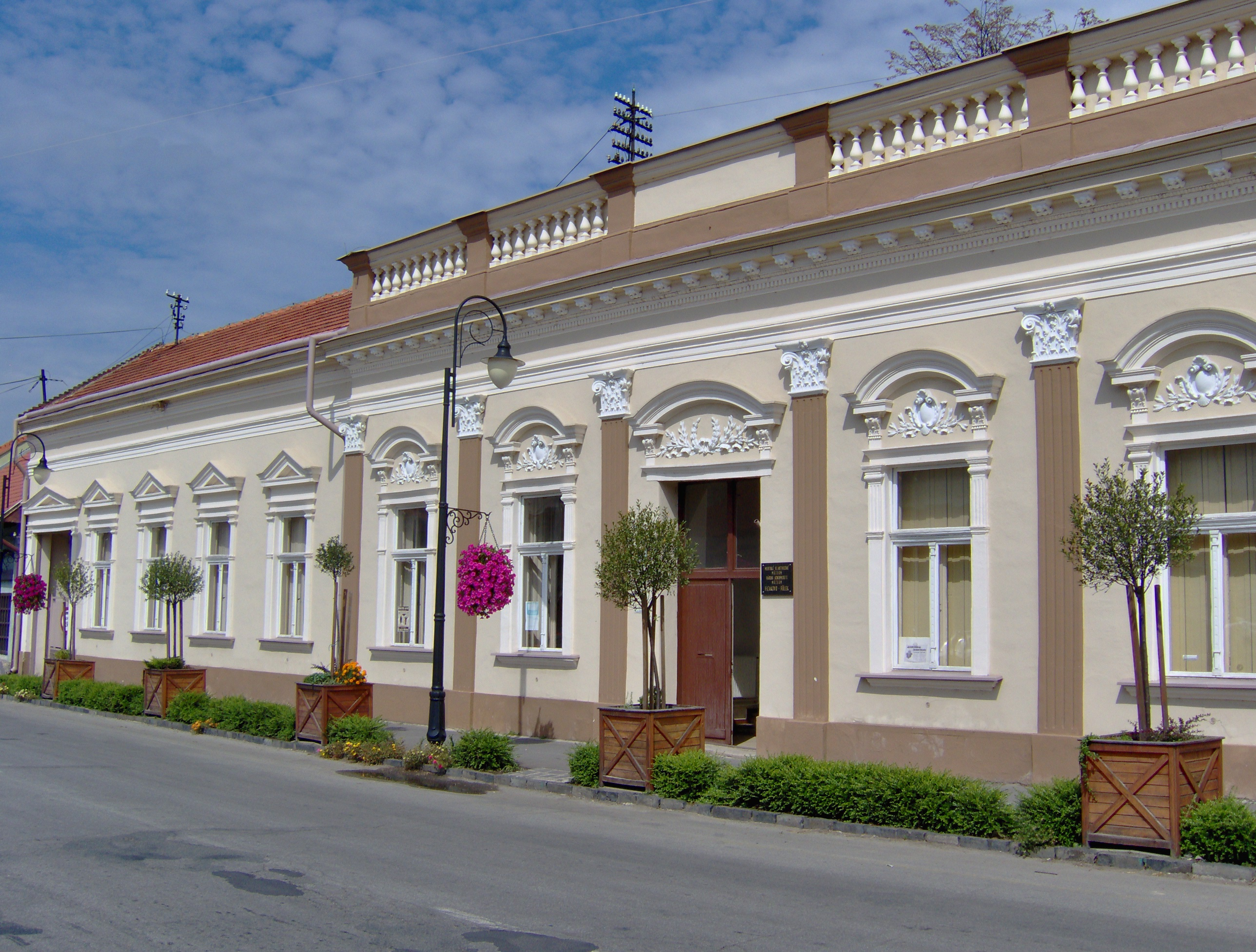 Fiľakovo, museum